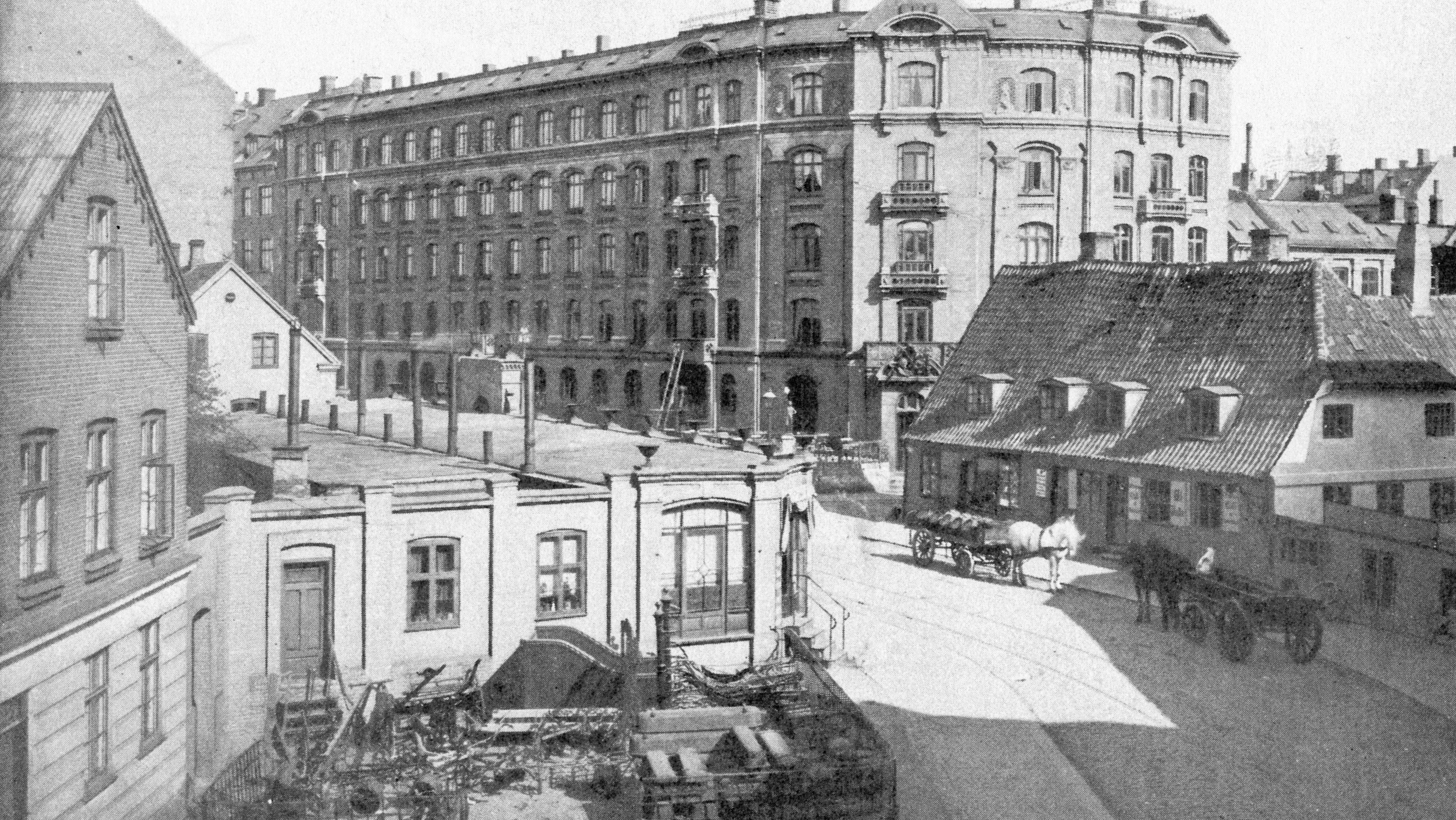 Gammel Kongevej in Copenhagen, Denmark. To the left one of the old country houses (om the corer of Bagerstræde) and to the left the formeriron foundry.